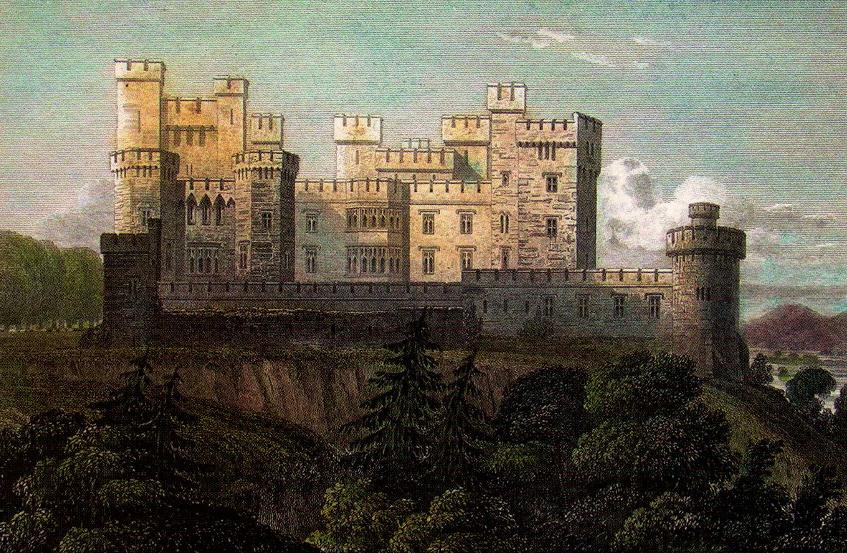 Mitchelstown Castle, Ireland. Early 19th century print, in the public domain in the USA as it is over 100 years old.